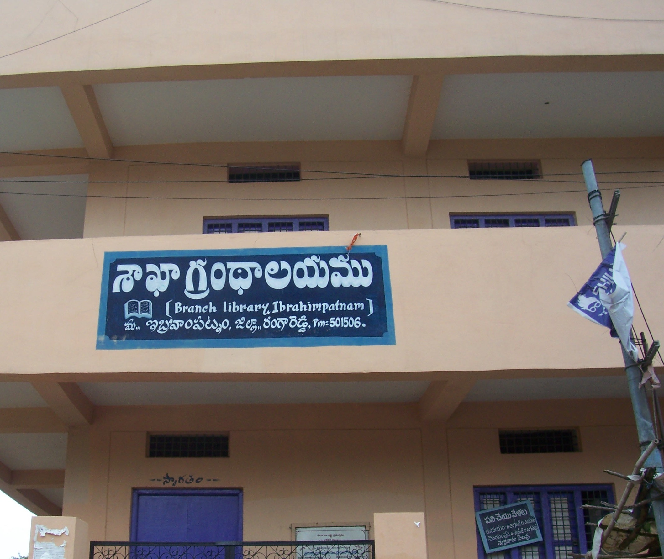 village library